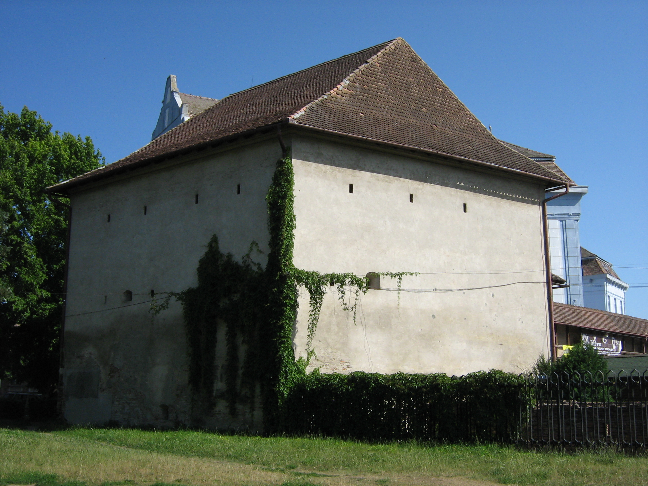 The Castle of Târgu Mureş